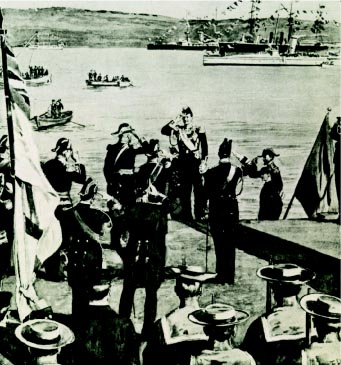 Photo: arrival of Prince George of Greece, High Commissioner of the Cretan State at Souda Bay in 1898.